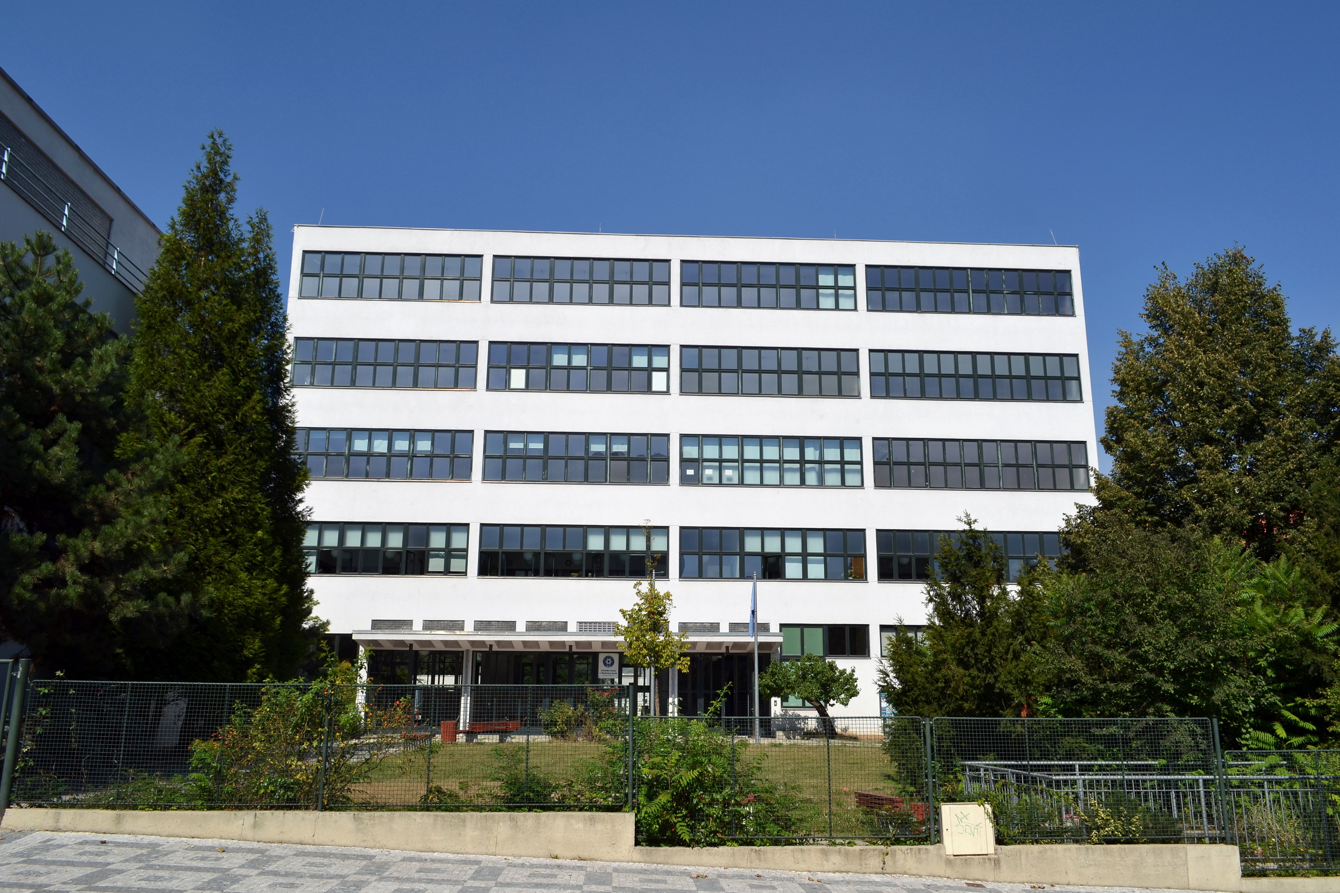 Cultural monument, building of the former french high school, now a nursery school and elementary school. Praha 6-Dejvice, Bílá 1784/1, Na Kocínce 1784/2, Božkova 1784/3, Kadeřávkovská 1784/4, Czech Republic. View from Bílá street.